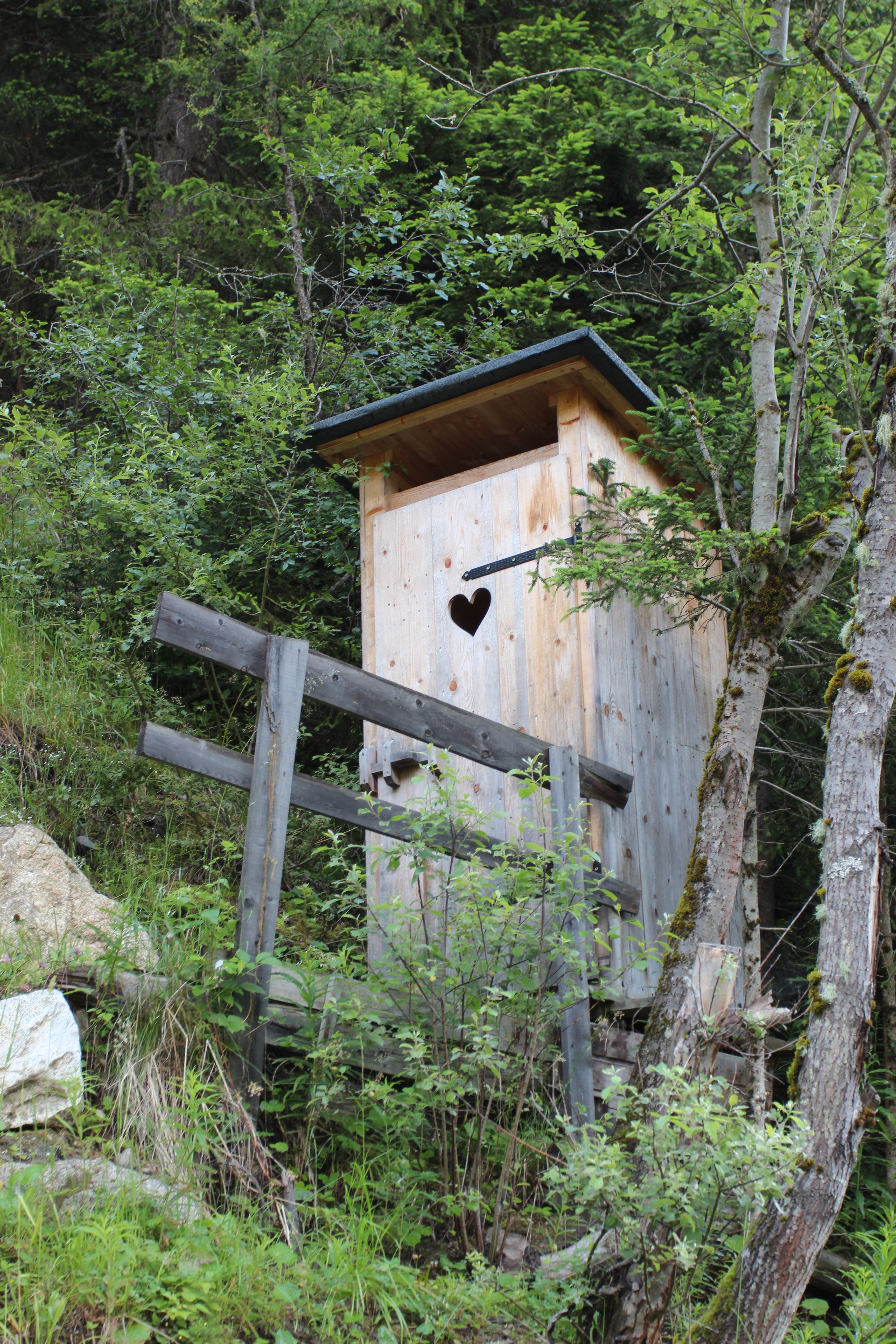 Outhouse